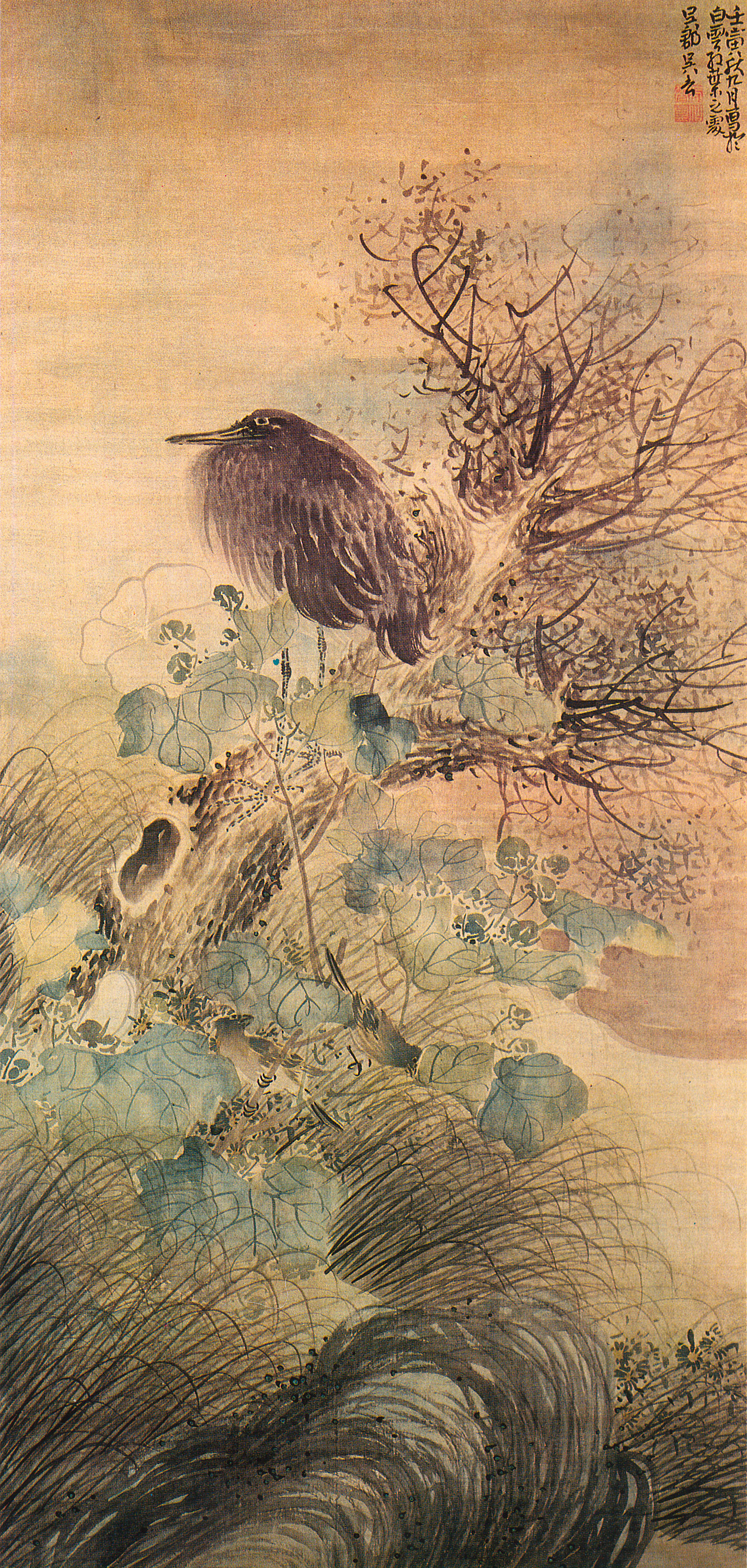 Painting. Title: Hibiscus and blue heron on a tree stump. Hanging scroll. Ink and colors on silk. 126 x 60 cm. Hyōgo Prefecture, Kurokawa Kobunkan Kenkyusho